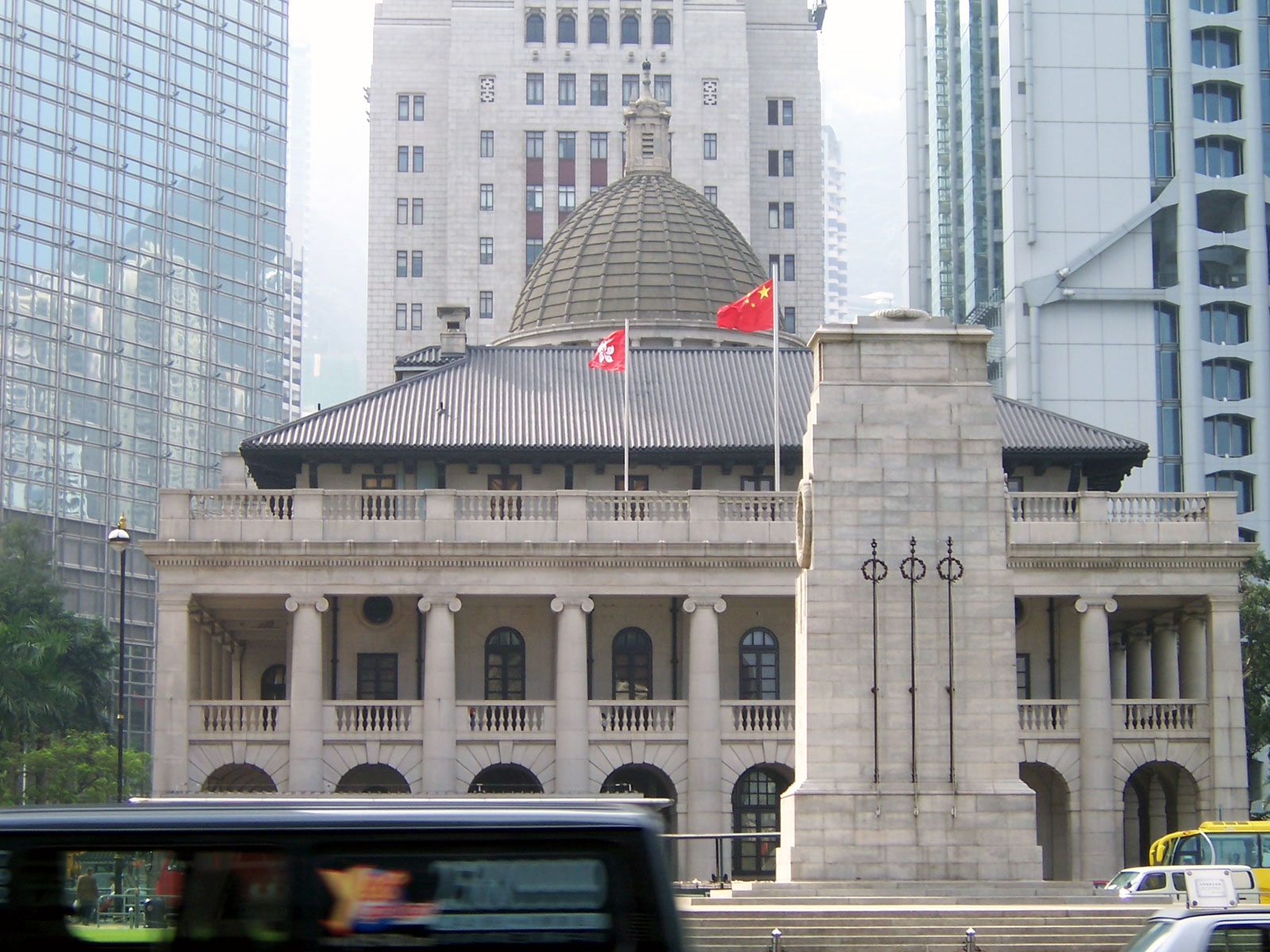 Hong Kong's Legislative Council Building Taken by Enoch Lau on 3 January 2006. As a courtesy, please let me know if you alter this image or this image description page. Original filename was 100_1326.JPG.